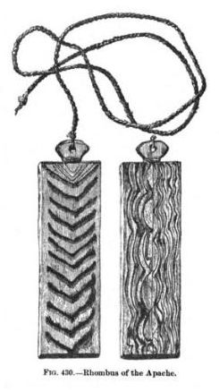 Apache Bull Roarer (tzi-ditindi, "sounding wood")